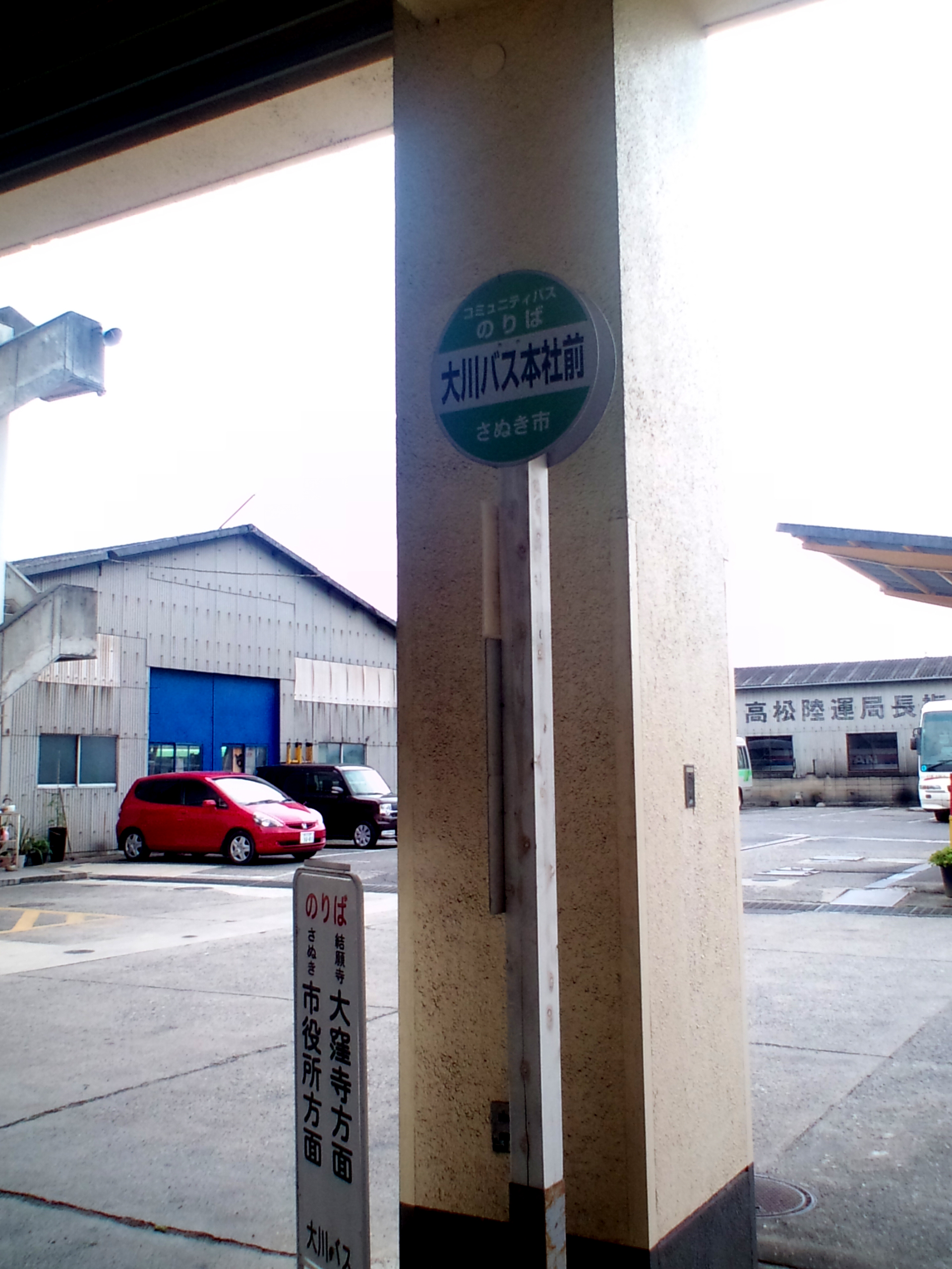 Sanuki City Community Bus Okawa Bus Honsha-mae Bus Stop